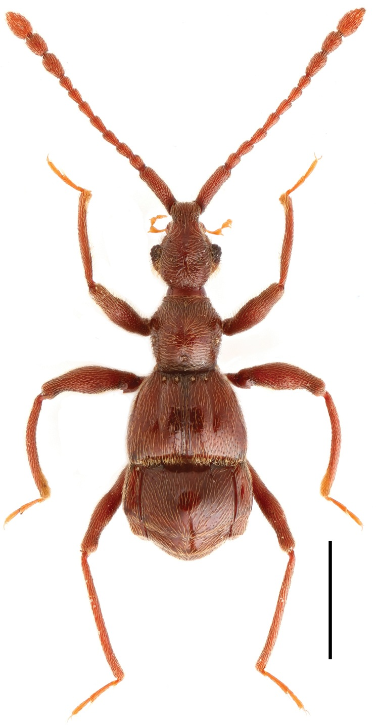 Male habitus of Dayao emeiensis. Scale: 1.0 mm.